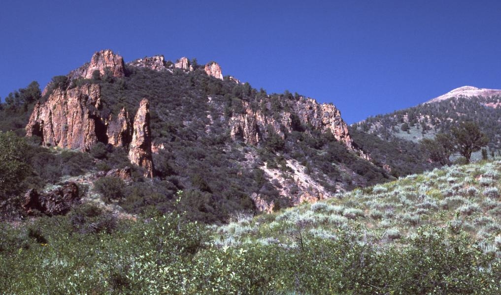 Rock pinnacles in the Jarbidge Mountains, Nevada, looking east up Snowslide Gulch. Visible on top of the ridge is Jumbo Mountain.